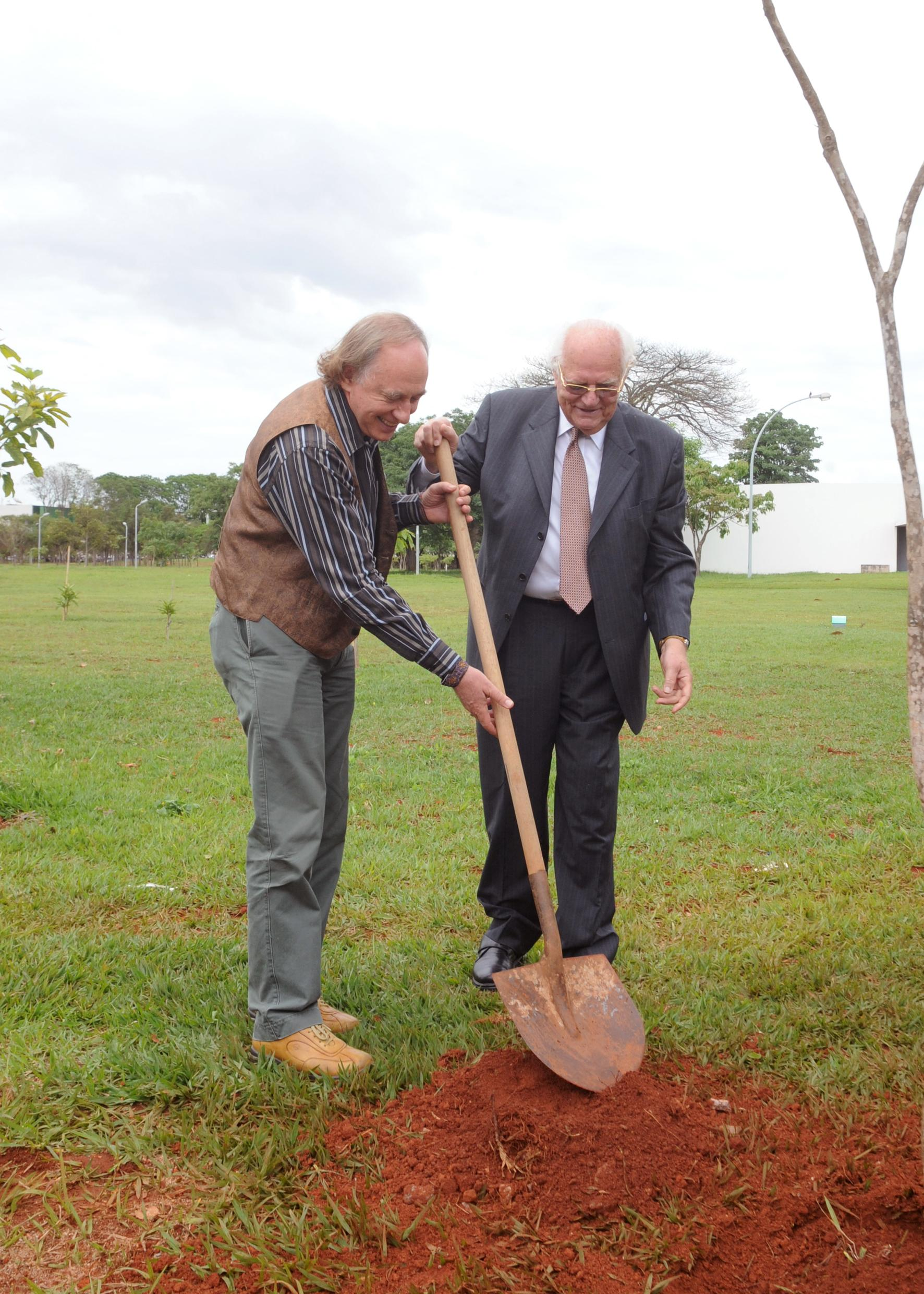 The Minister of Environment of Brazil, Carlos Minc, and Professor Ignacy Sachs. Brasília, 20 October 2009.